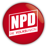 NPD "Volksunion" logo.